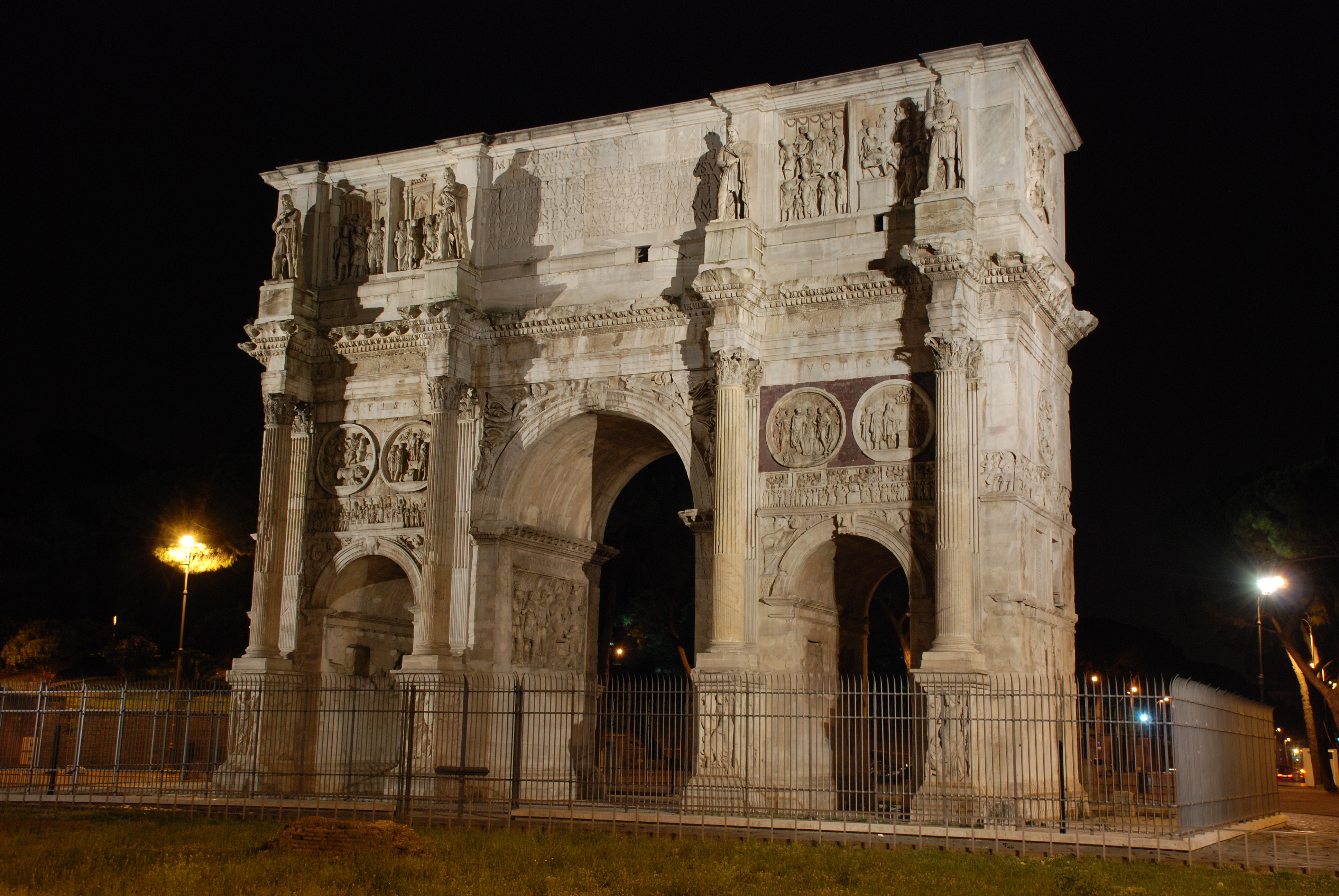 Arch of Constantine, adjacent to the Roman Colosseum, in Rome, Italy.